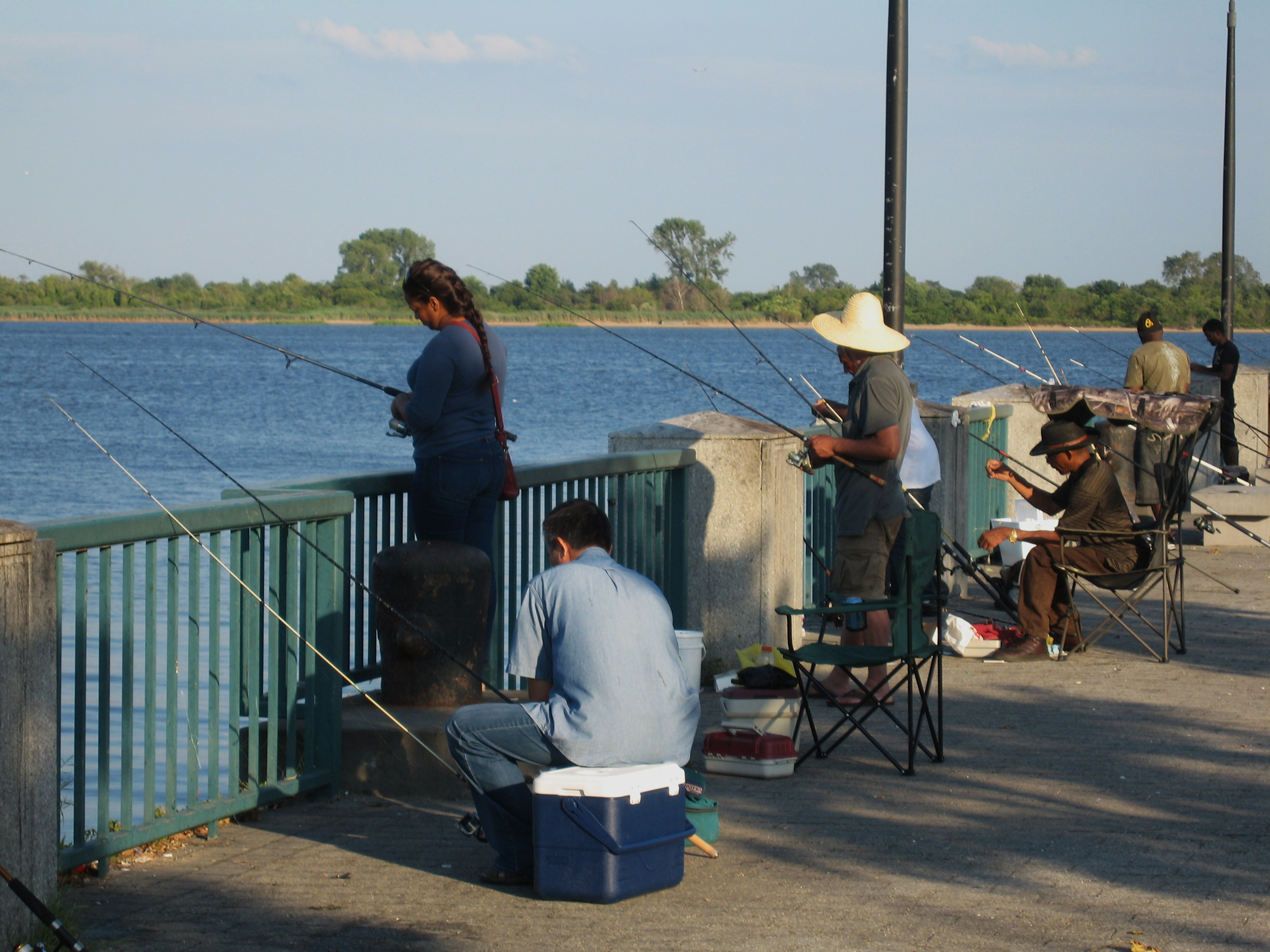 Fishing at Canarsie Pier, Brooklyn